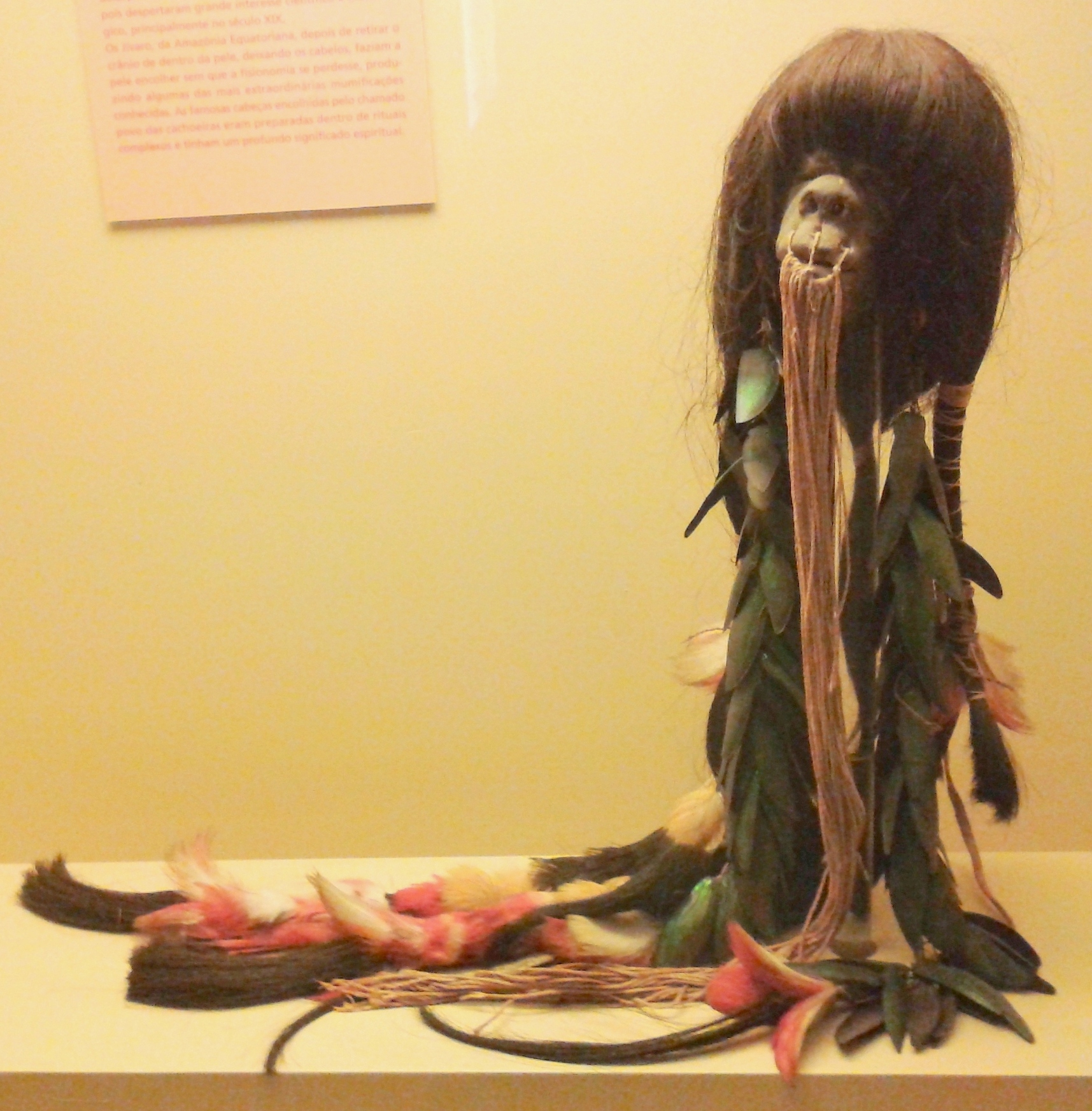 Produced by the Shuar (Jivaroan people).